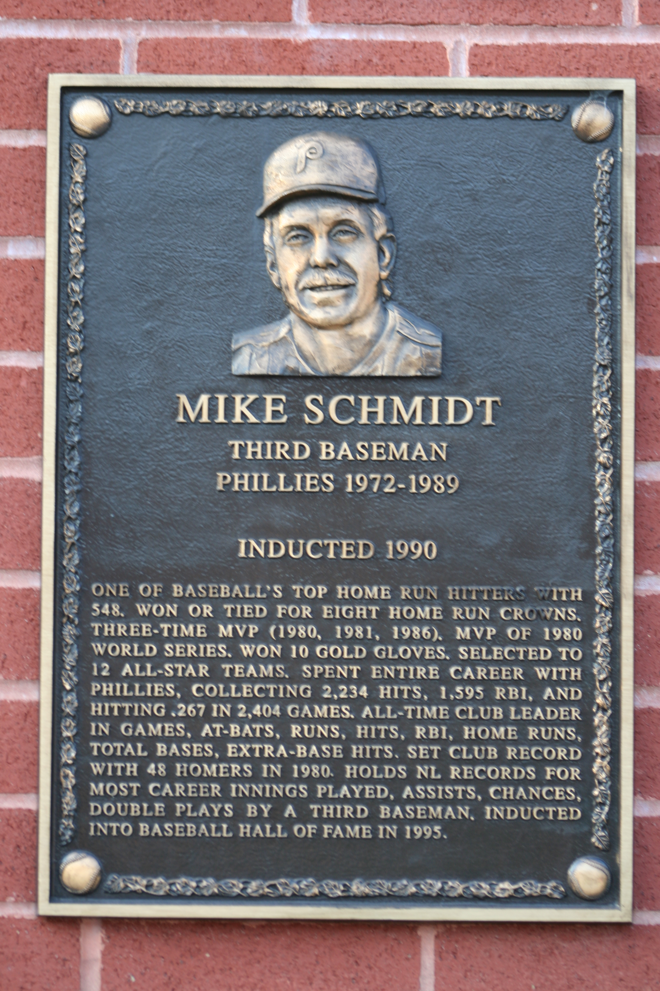 Mike Schmidt's plaque on the Philadelphia Baseball Wall of Fame